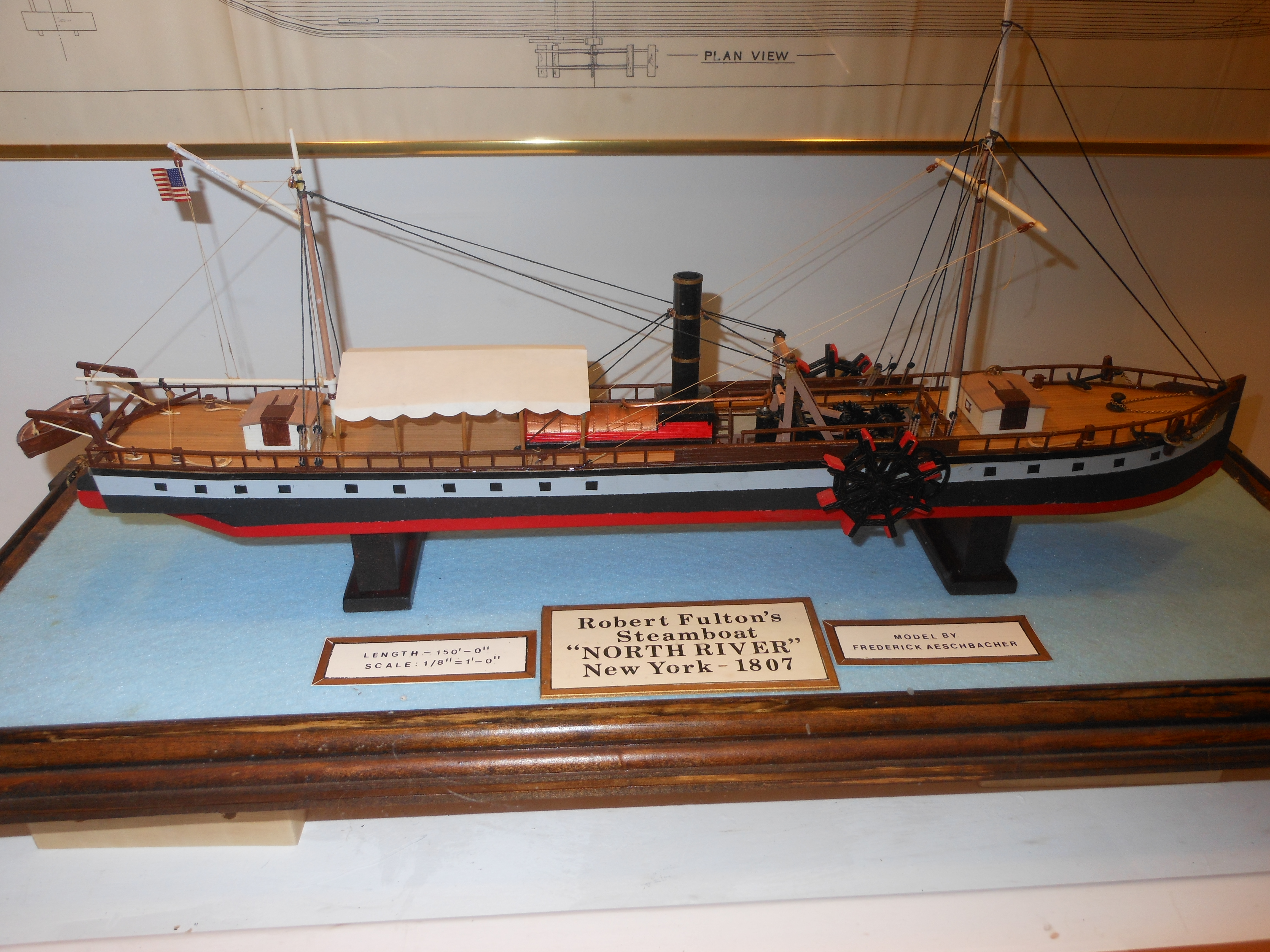 A model of the North River Steamboat designed by Robert Fulton at the Hudson River Maritime Museum